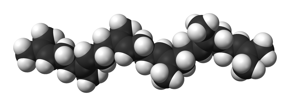 Space-filling model of the squalene molecule, C30H50, as found in the crystal structure. X-ray crystallographic data from: J. Ernst, J-H. Fuhrhop, Liebigs Ann. Chem., 1979 (11), 1635-1642. Model constructed in CrystalMaker 8.1. Image generated in Accelrys DS Visualizer.